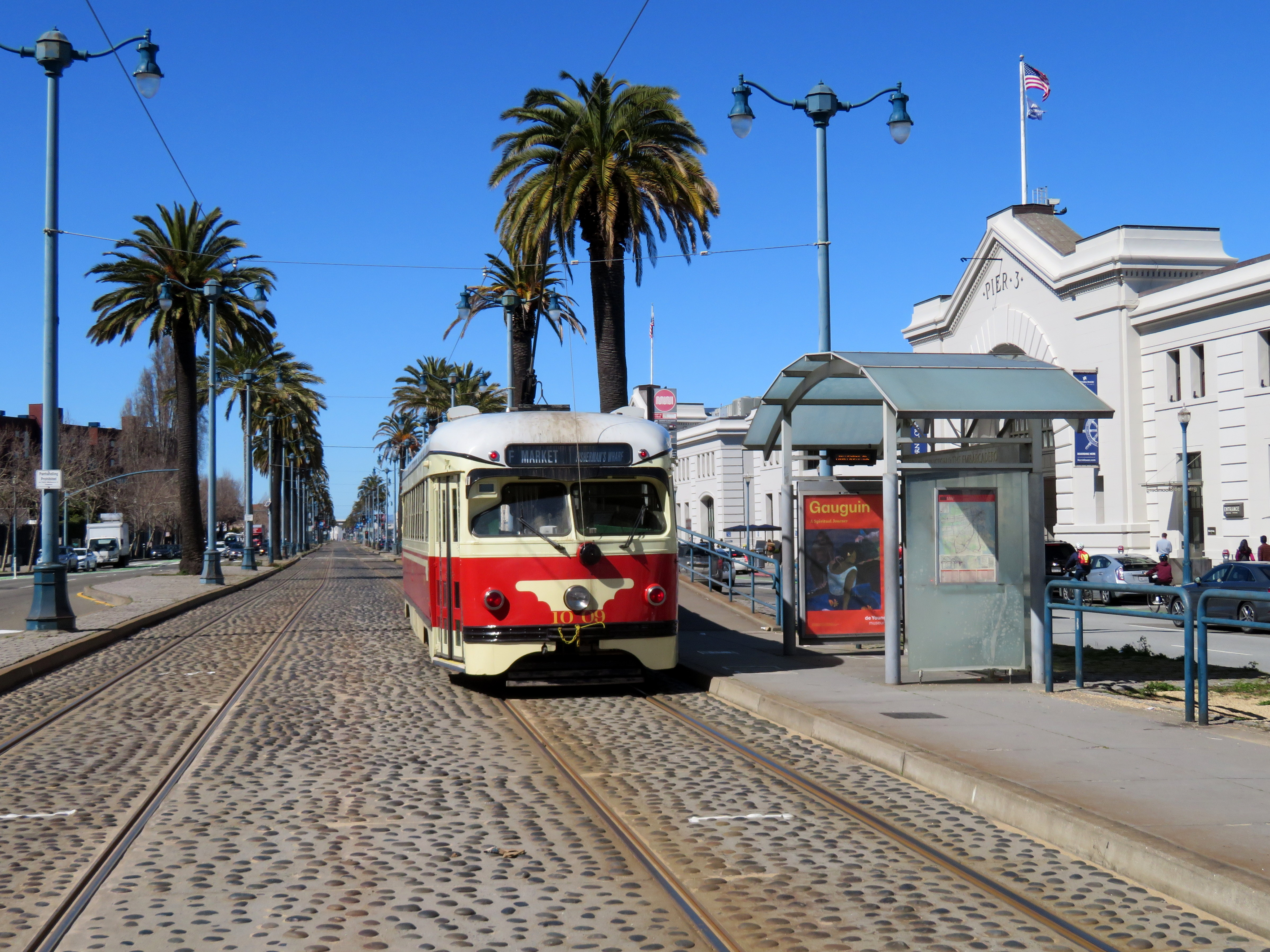 Muni 1009 northbound at Washington and The Embarcadero station in March 2019. Because the E was temporarily cancelled during other construction work (that required additional operators for shuttle buses), #1009 was operating on the F.